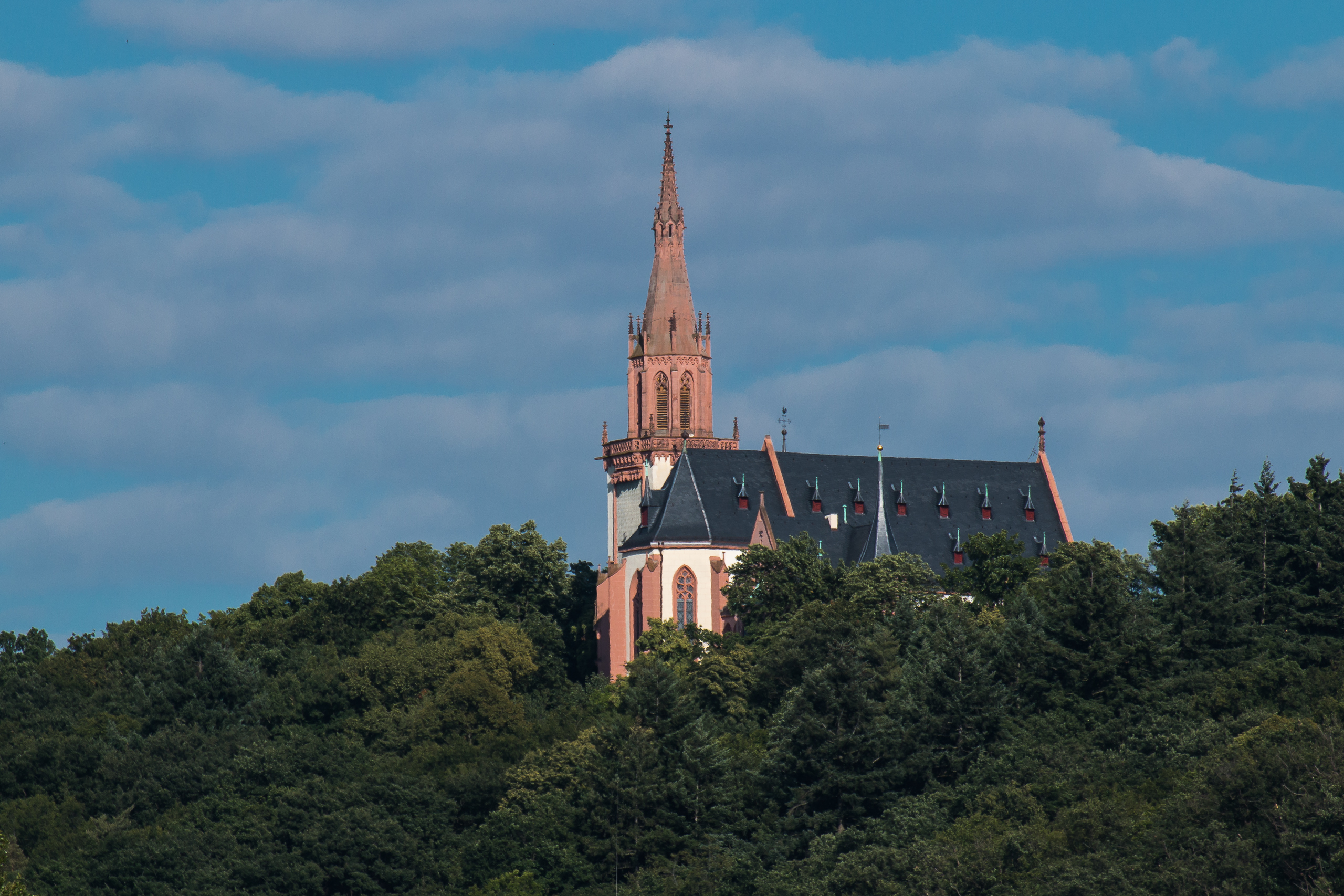 Die Chapel of St. Roch on the Rochusberg in Bingen, Germany